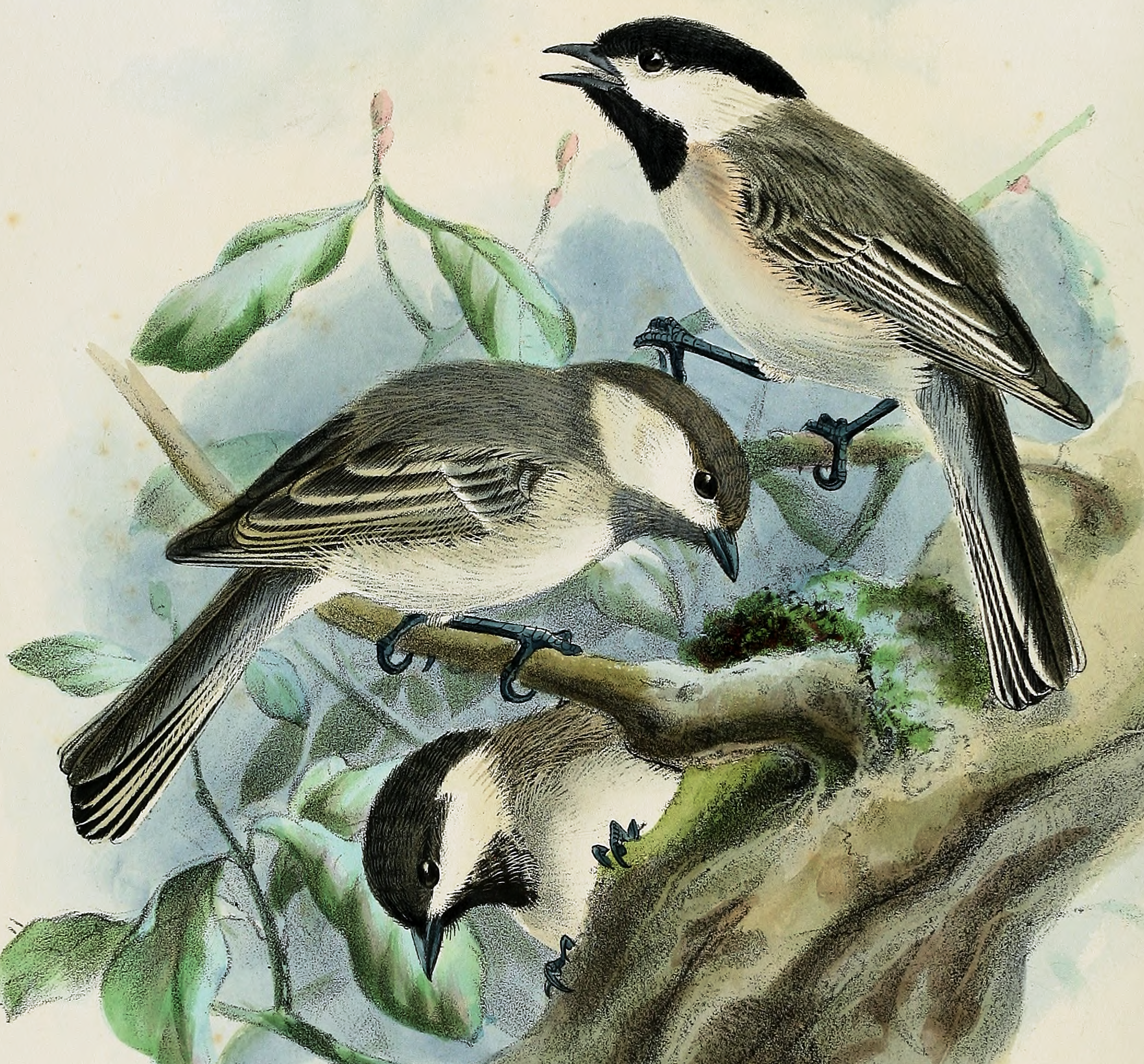 Parus lugubris. Dresser